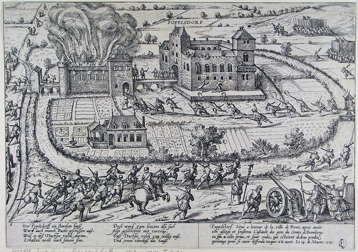 Part of the series {name }.